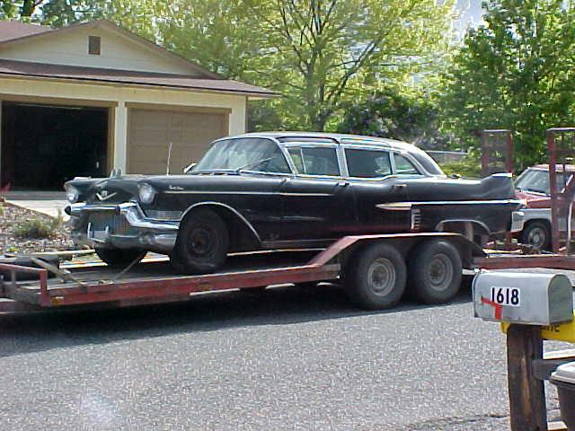 Black 1957 Cadillac series 75 limo on a trailer.